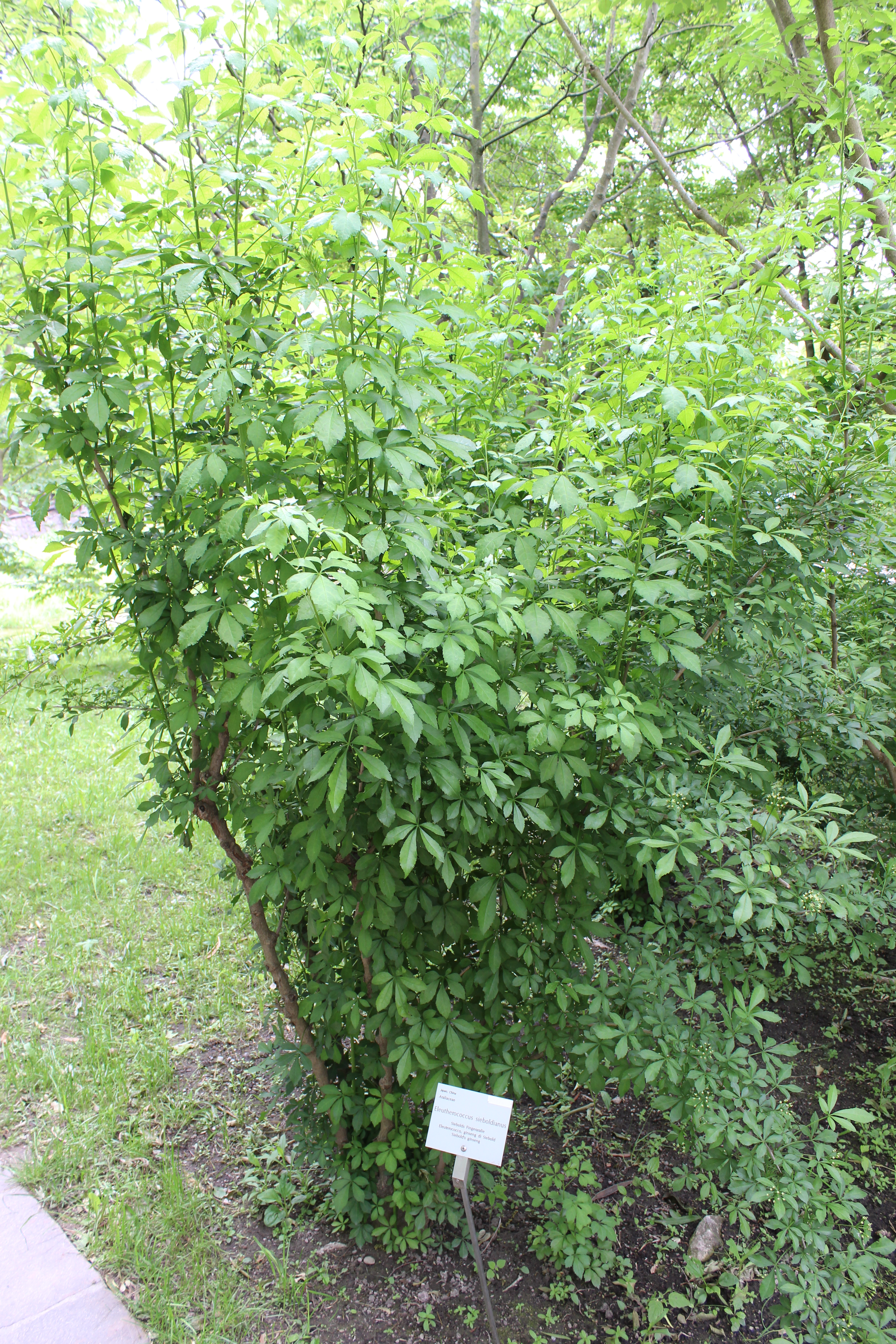 Siebold's ginseng (Eleutherococcus sieboldianus)